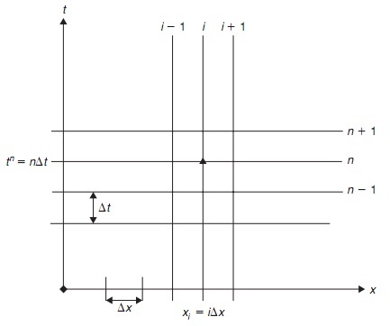 Discretization of the time and space axis